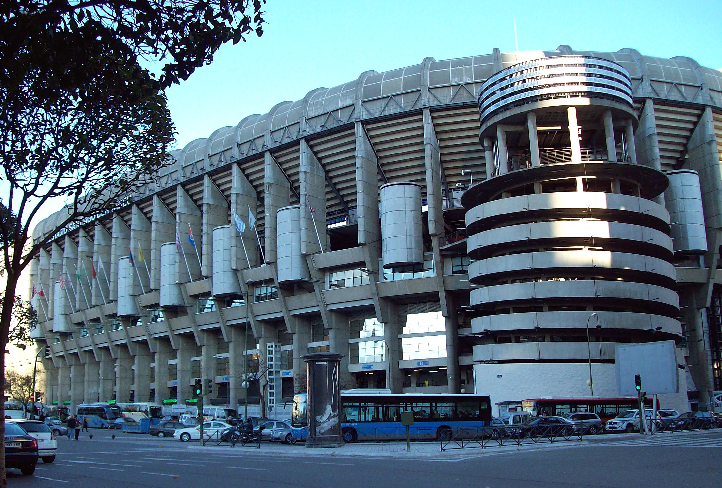 West façade (Paseo de la Castellana, avenue) of the Santiago Bernabéu Stadium in Madrid (Spain).